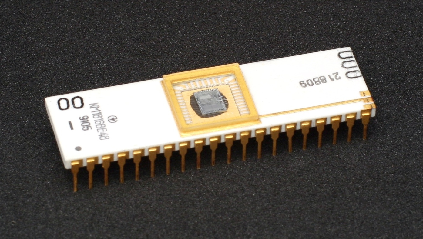 USSR MCU KM1816VE48 (= Intel i8748 / MCS-48)